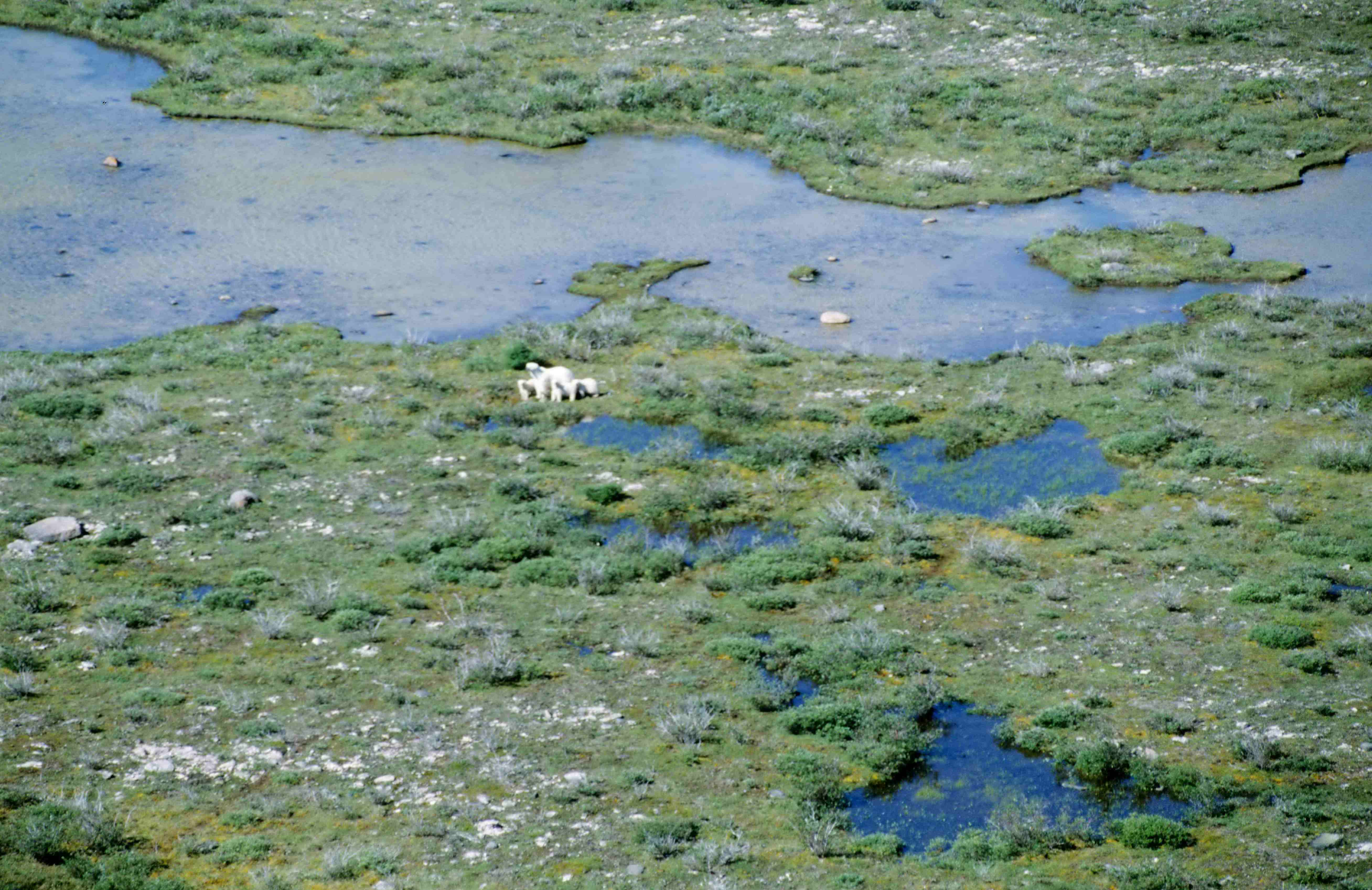 Polar bear mother & three cubs in summertime (Wapusk National Park, Manitoba, Canada)